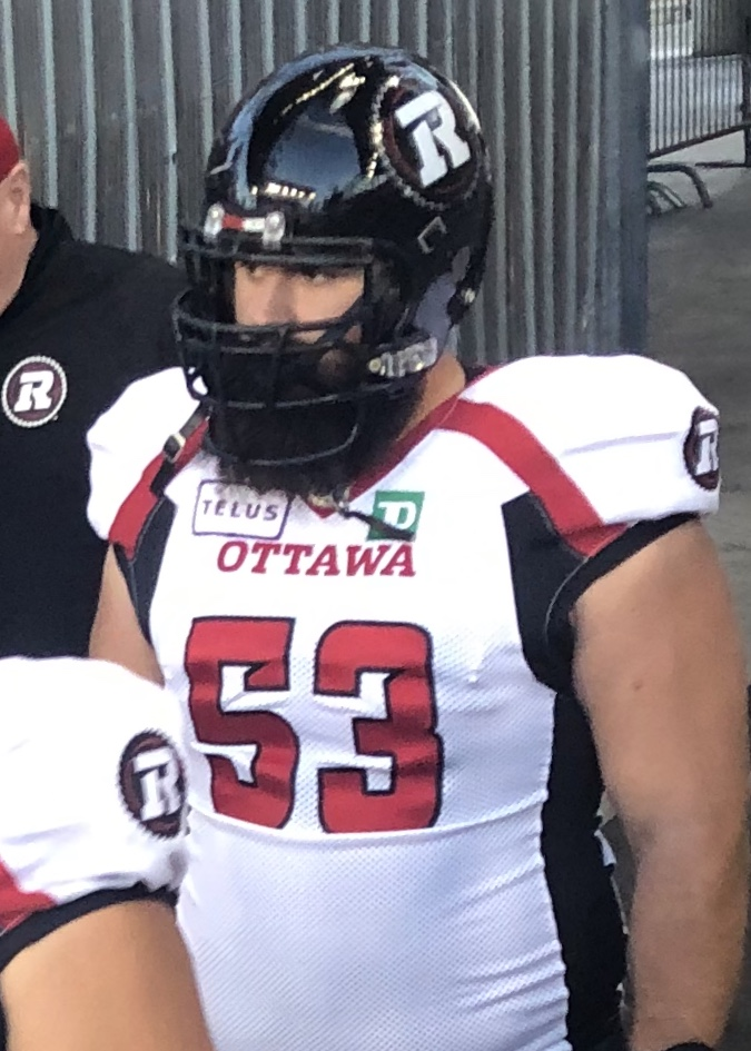 Philippe Gagnon, offensive lineman for the Ottawa Redblacks.